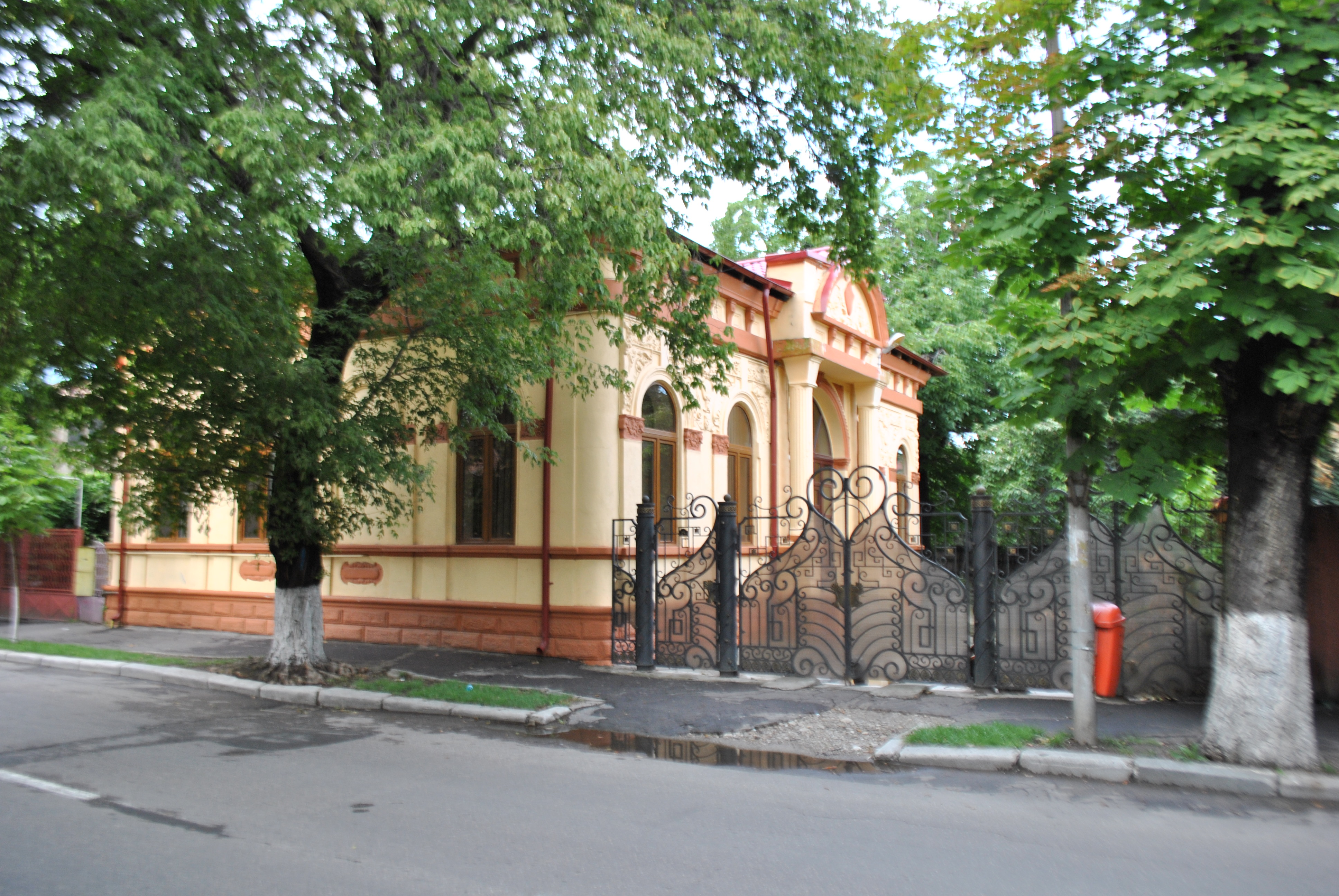 Historic building on Gării 15, Buzău, RomaniaRomână: Clădire istorică din Buzău, România, pe bd. Gării